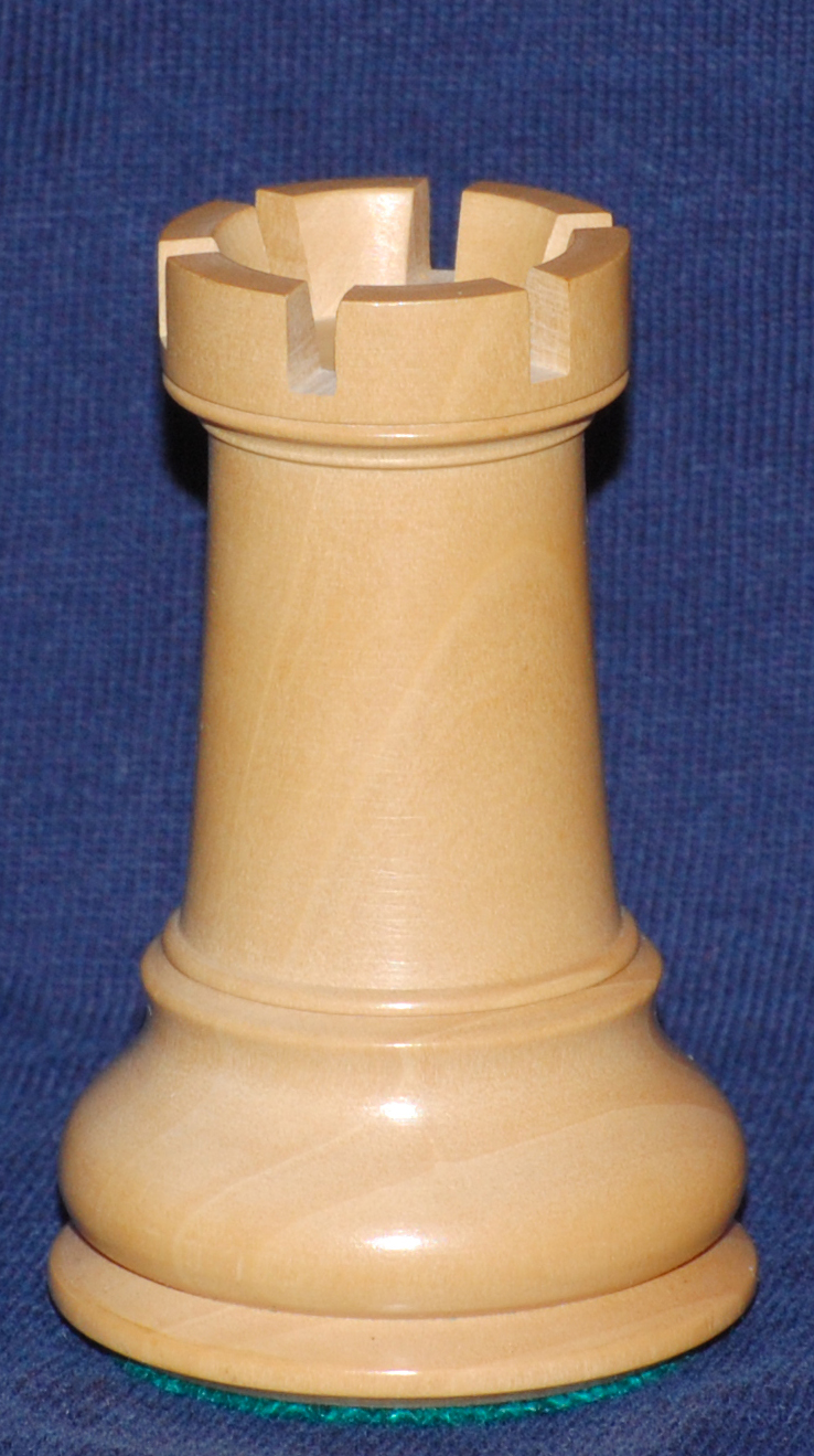 Rook from my House of Staunton "Marshall" chess set